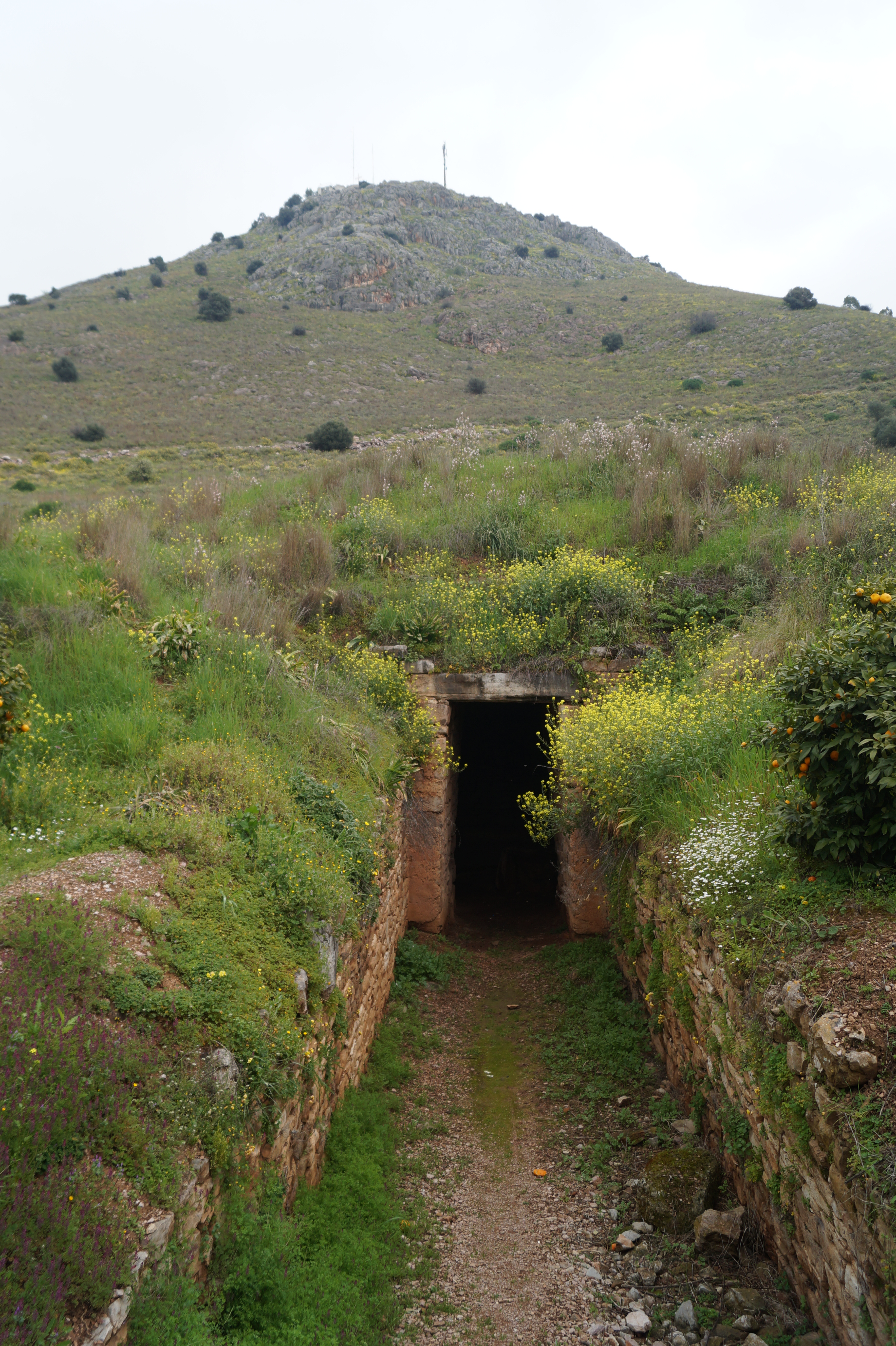 Tiryns, Argolis, Greece: Tholos tomb of Tiryns.